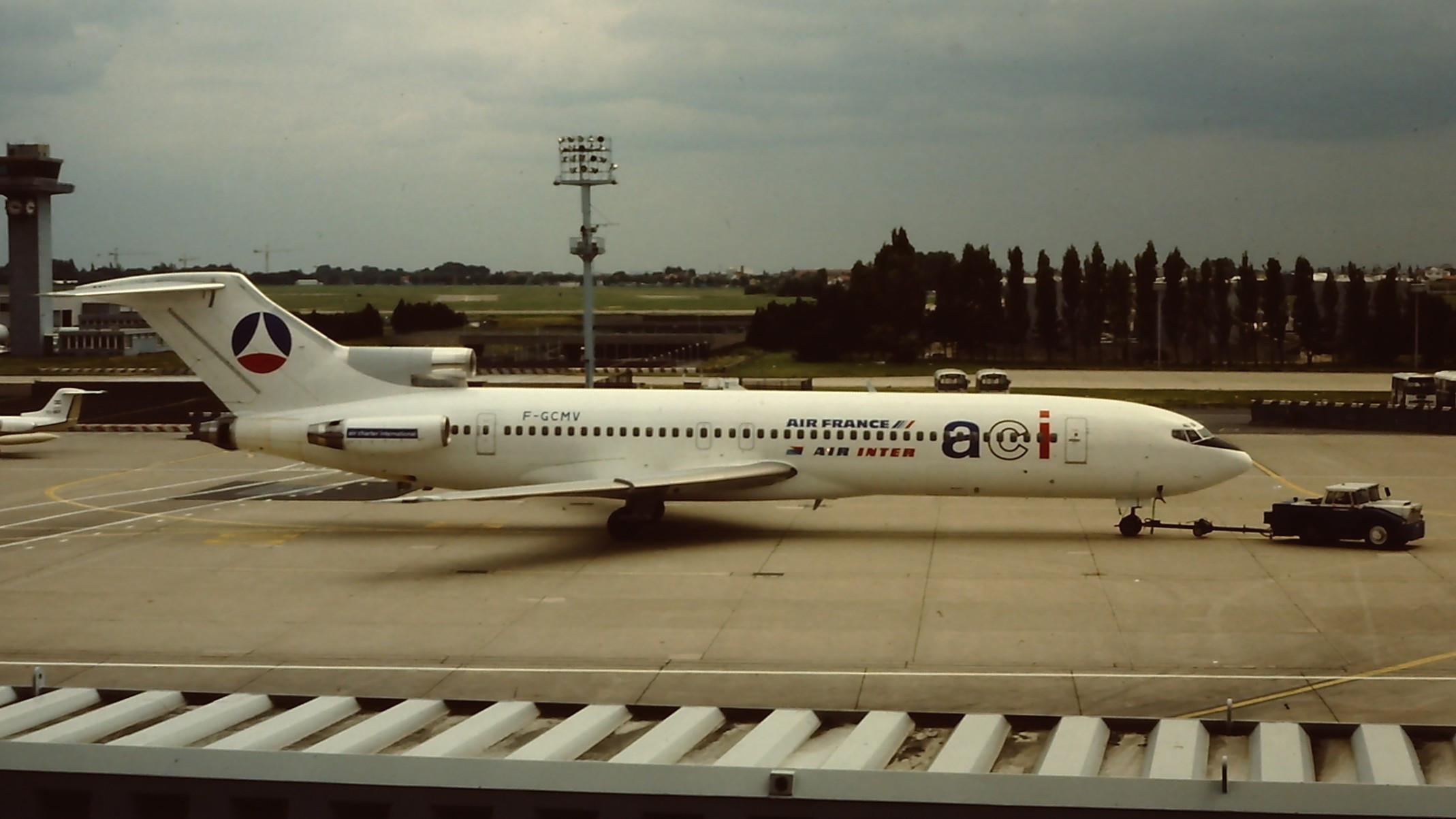 F-GCMV a Boeing 727-200 of Air Charter International at Paris-Orly Airport. Air Charter International was an Air France subsidary.